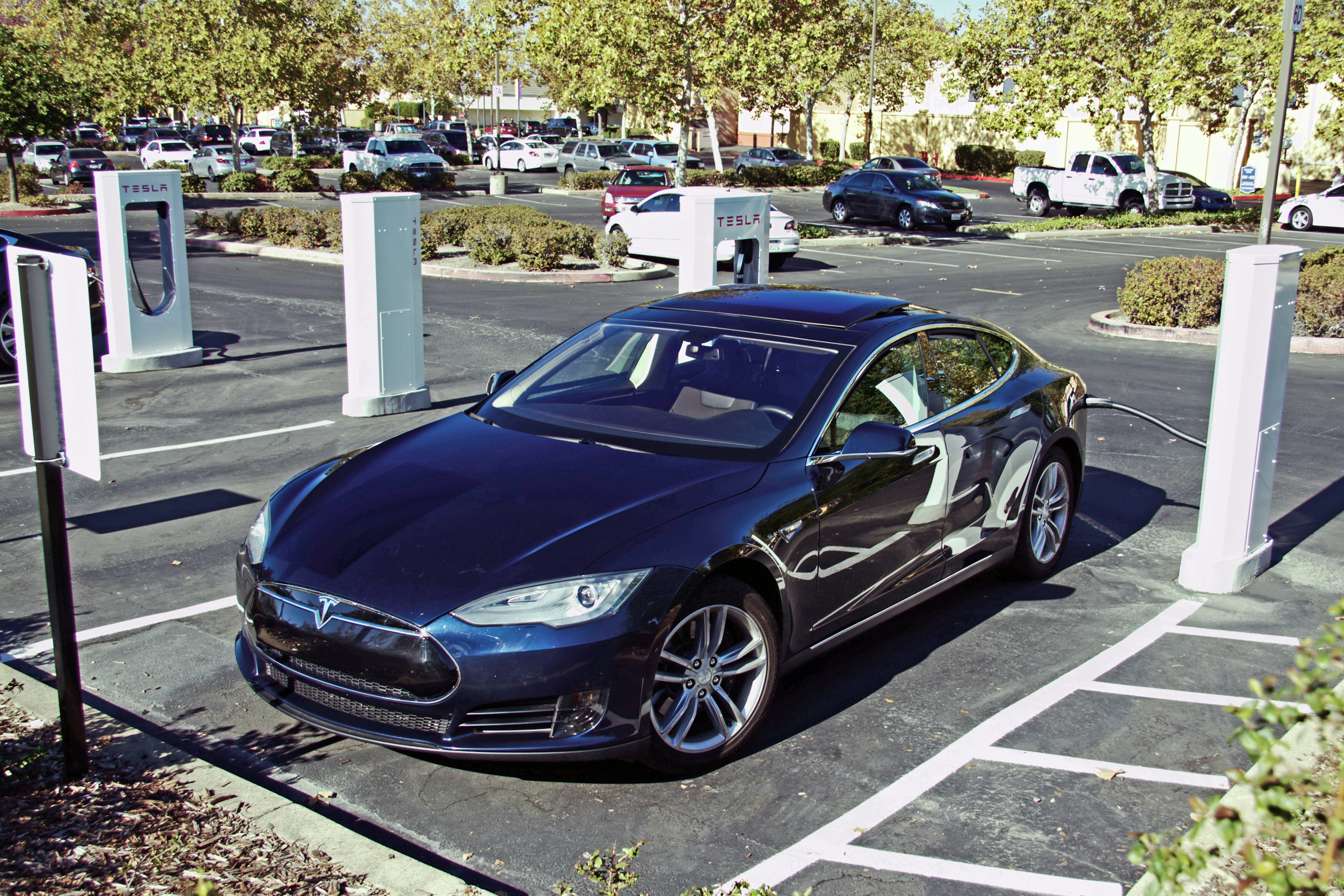 Tesla Model S using the Supercharger station located at Folsom Premium Outlets on Iron Point Road in Folsom, California.